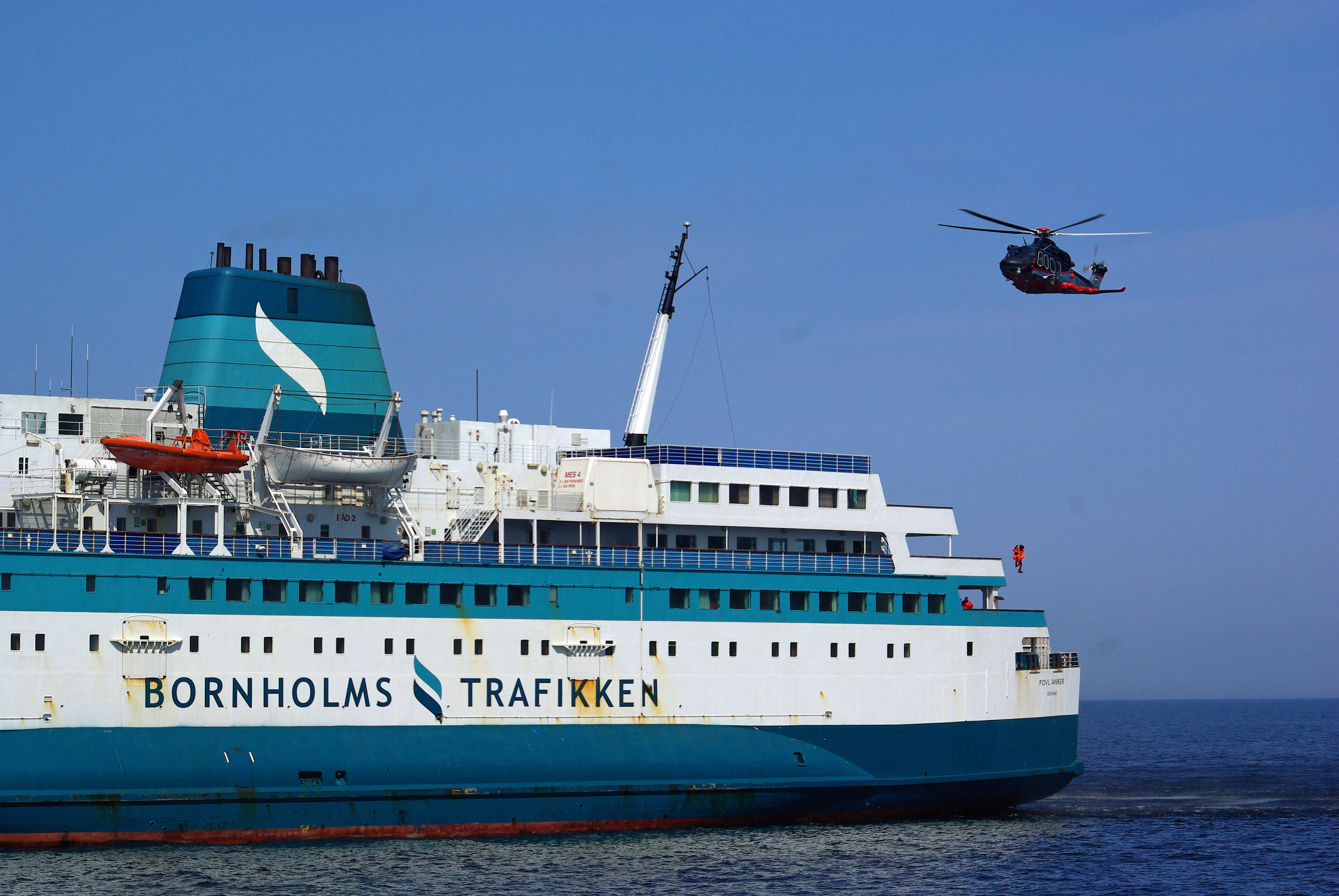 Training exercise Baltic Sarex.